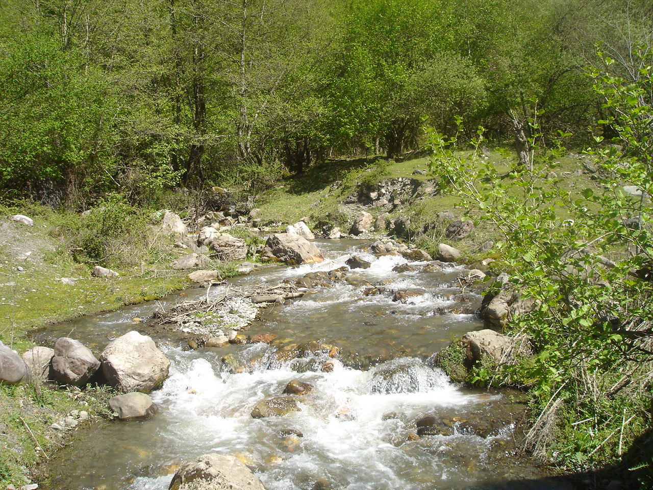 Dolgashka (Elevska) River in western Macedonia